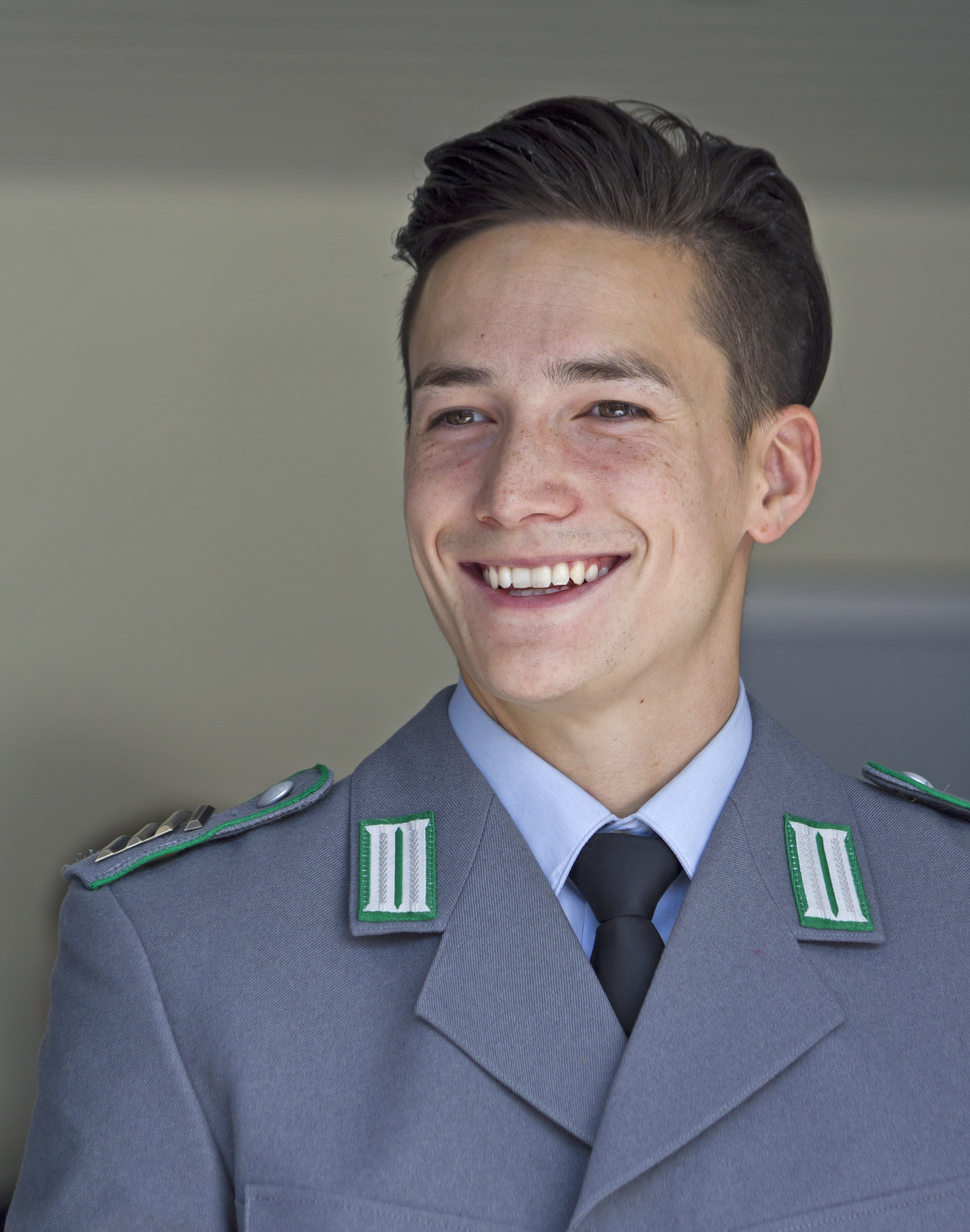 Marcel Nguyen, a professional artistic gymnast and soldier from Germany (of Vietnamese origin), silver medal winner of the 2012 Summer Olympics